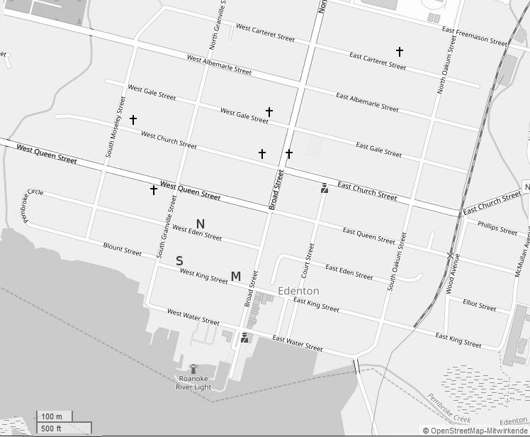 Edenton, North Carolina, Town centre with houses important for the life of Harriet Jacobs